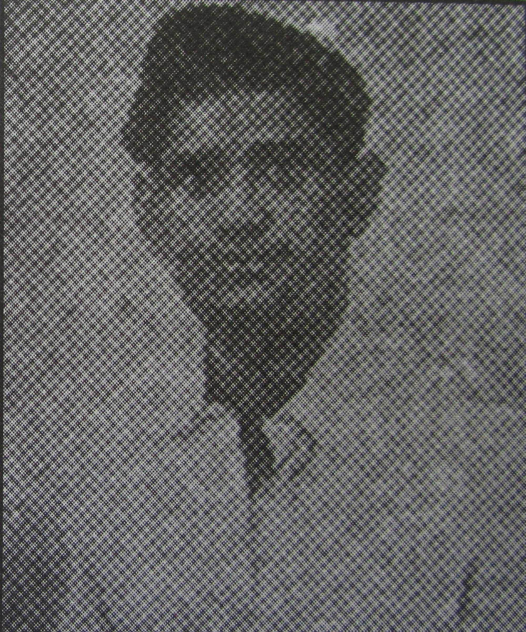 Apurba Sen